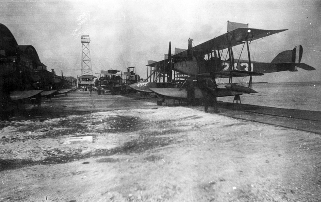 U.S. Navy Curtiss N-9 seaplanes and Curtiss F-Boats pictured lined up along the seawall at Naval Air Station Key West, Florida (USA). Note the various sizes of the bureau numbers painted on the aircraft.